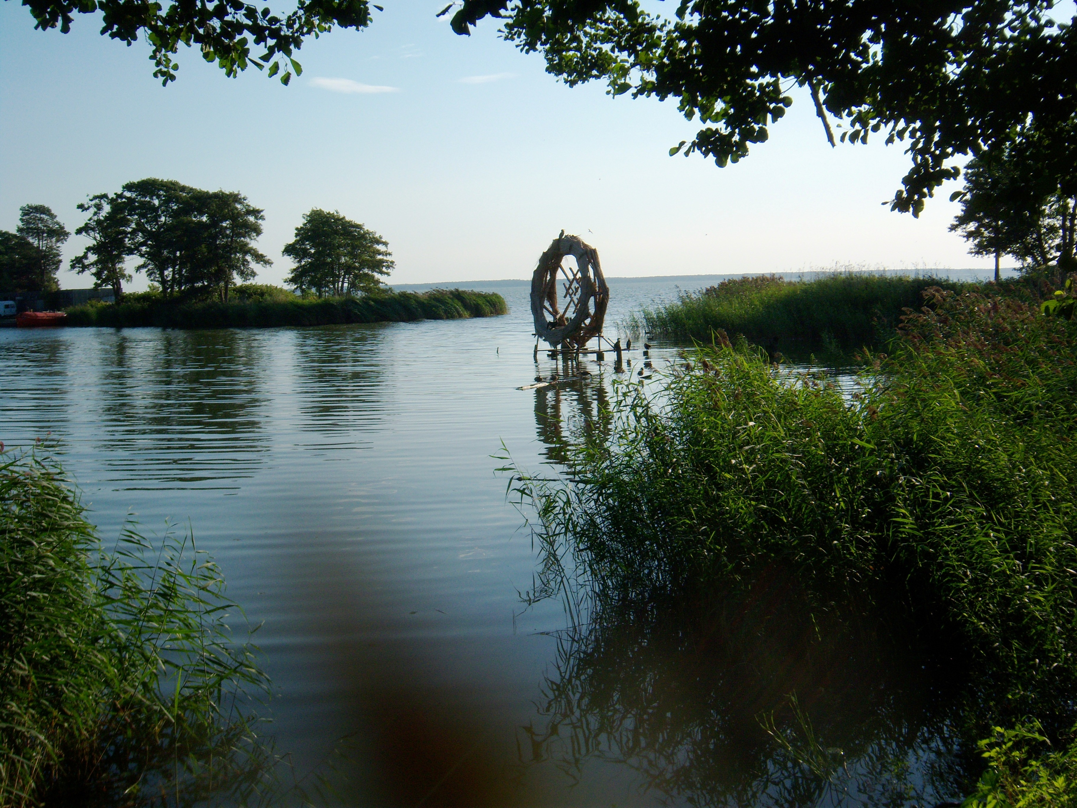 Gintaras Bay, Juodkrantė. Lithuania